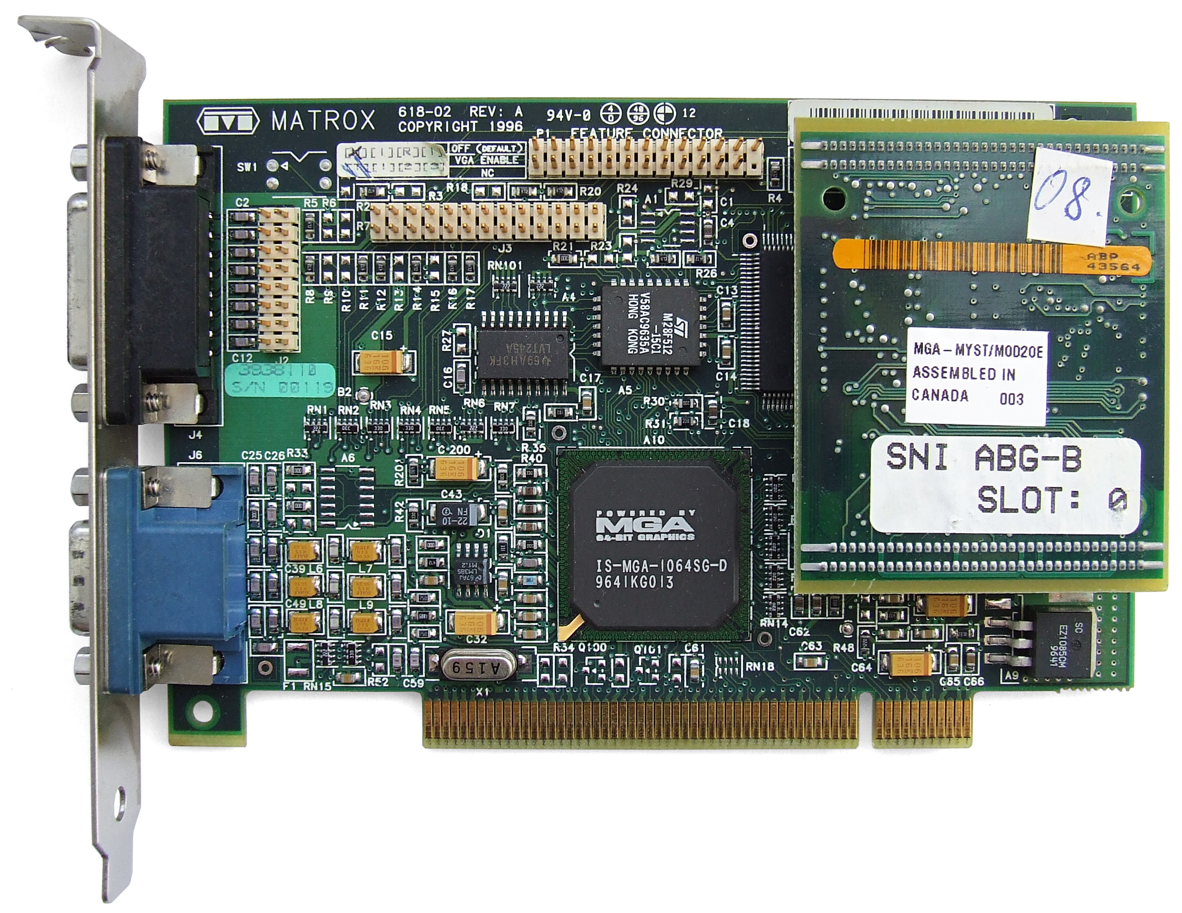 Matrox Mystique (MGA-MYST/2I) video card, PCB revision 618-02A. It is based on the MGA-1064SG-D graphics processing unit and equipped with a 2 MB memory daughterboard for a total of 4 MB SGRAM.